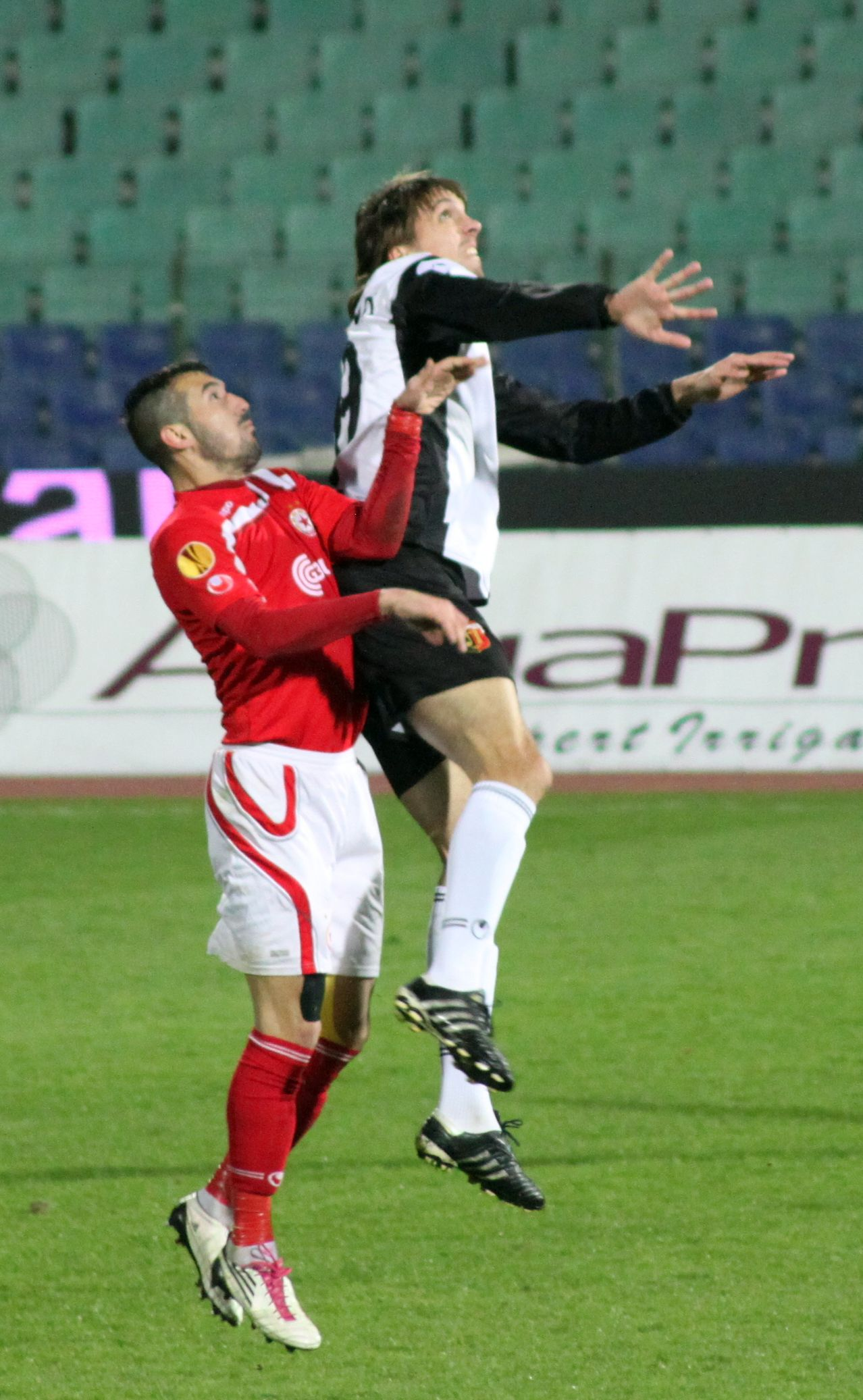 Nicolás Raimondi(Uruguay) and Pavel Vidanov (Bulgaria, in red)